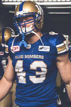 Trent Corney (43) and Jace Daniels (59) of the Winnipeg Blue Bombers during the pre-season game at TD Place in Ottawa, ON on Monday June 13, 2016. (Photo: Johany Jutras)